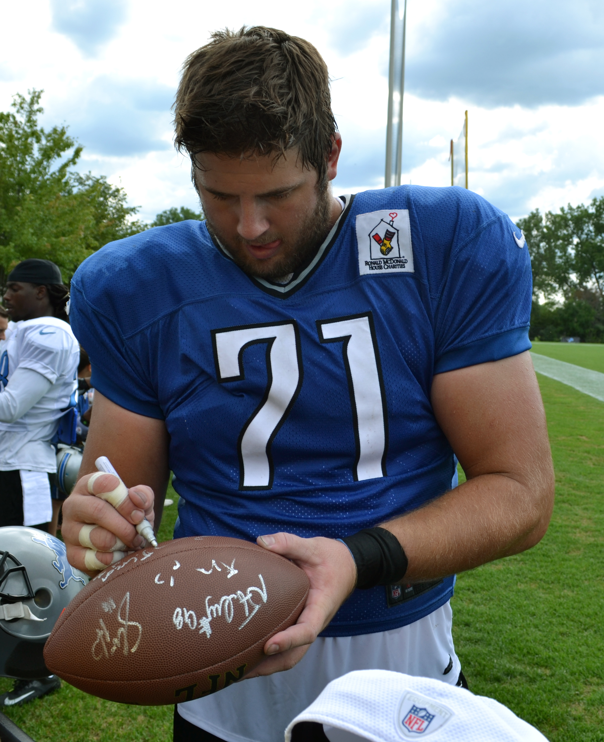 Detroit Lions offensive tackle Riley Reiff